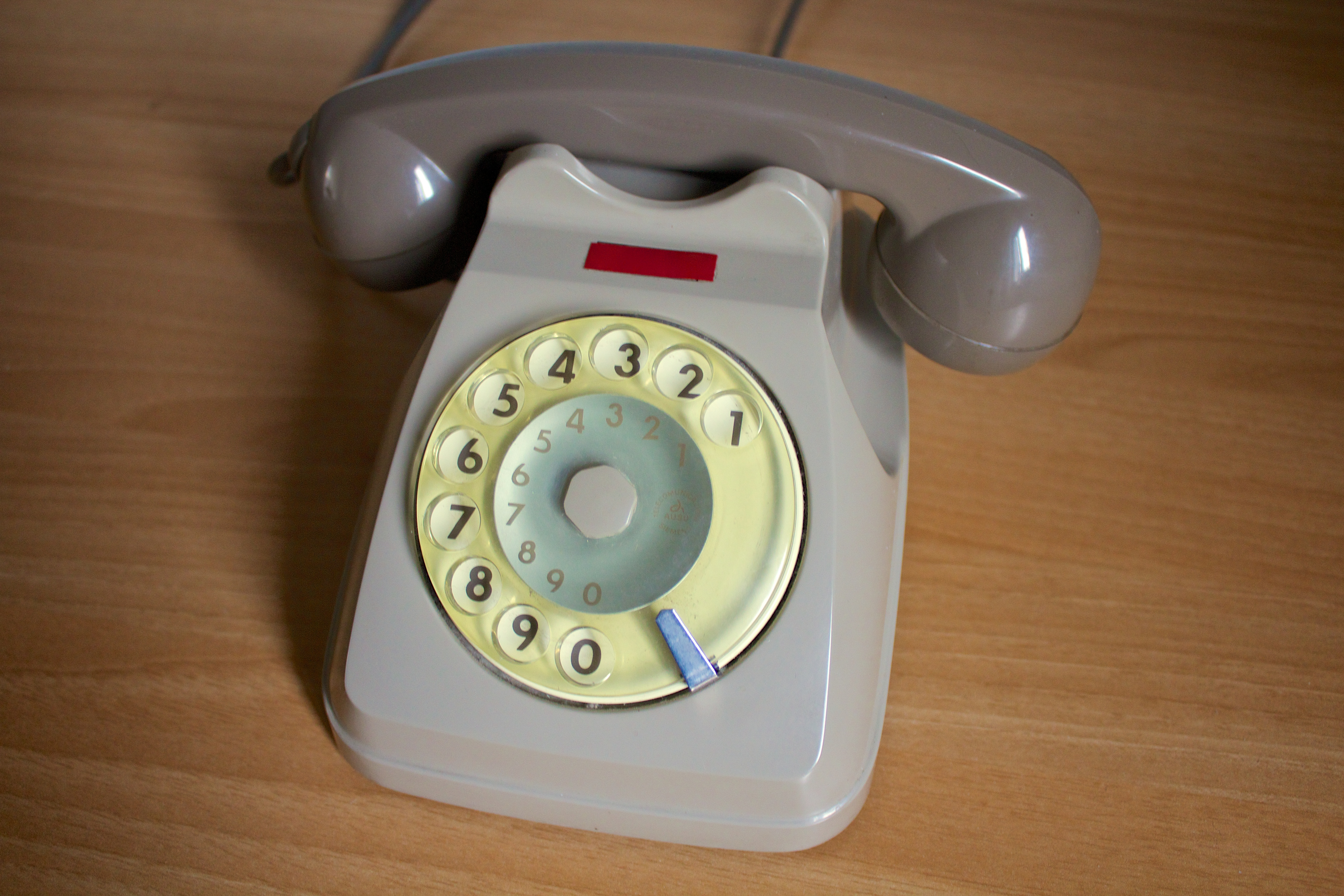 Telephone Siemens S62